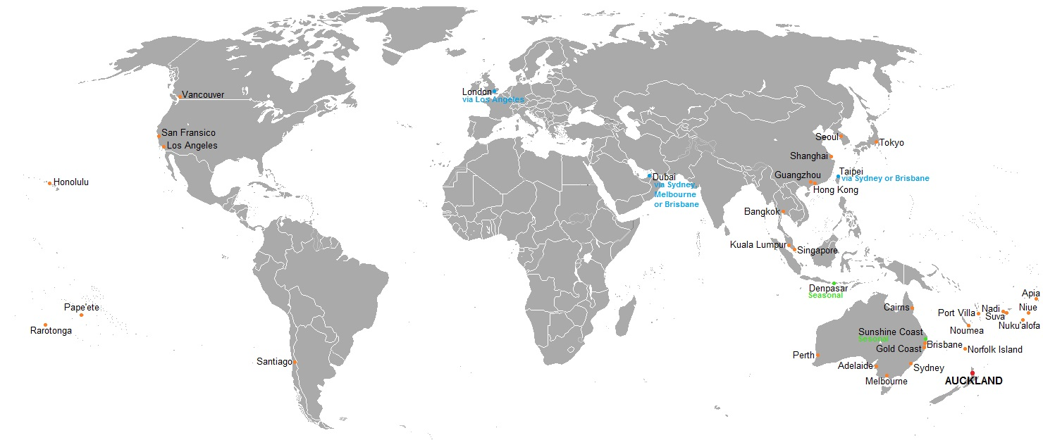 International Destinations from Auckland Airport